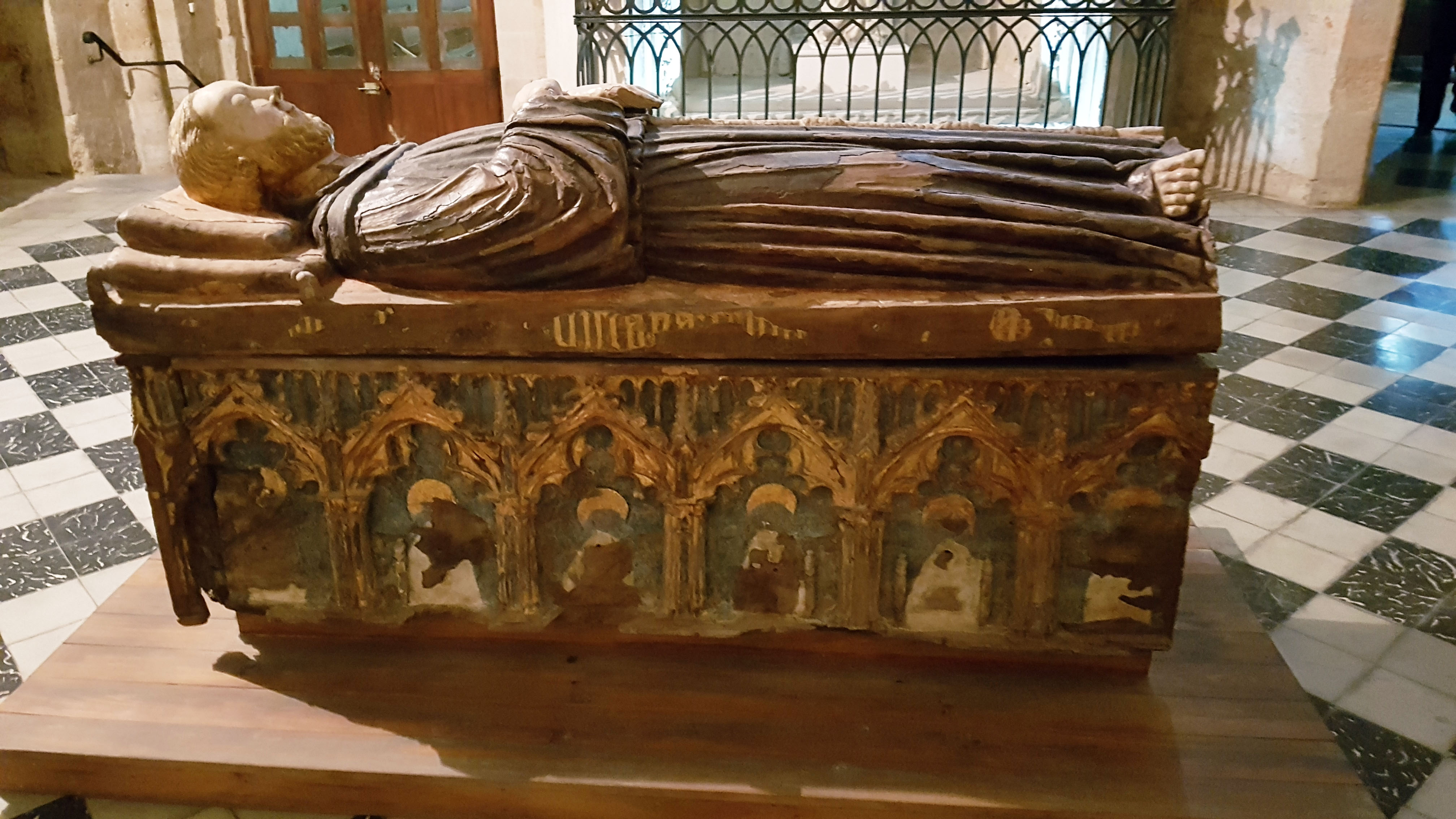 Polychrome quite sarcophagi of Tello of Castille in convent of Saint Francis in Palencia (Castile and León, Spain)